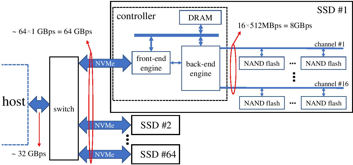 This image shows a very high-level view of the modern SSD architecture and why storage servers cannot utilize the modern SSD potentials completely.